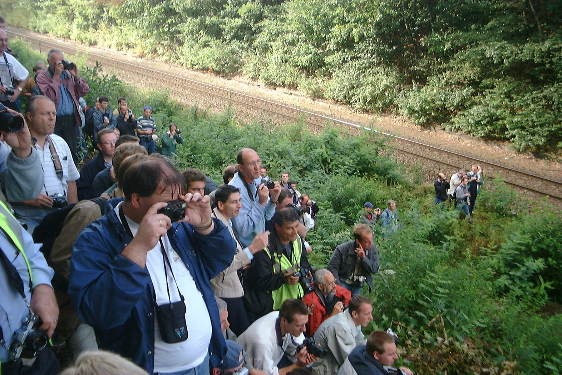 Railfans photographing a special train in Belgium, more specifically the farewell of SNCB/NMBS Class 51 diesel locomotive.